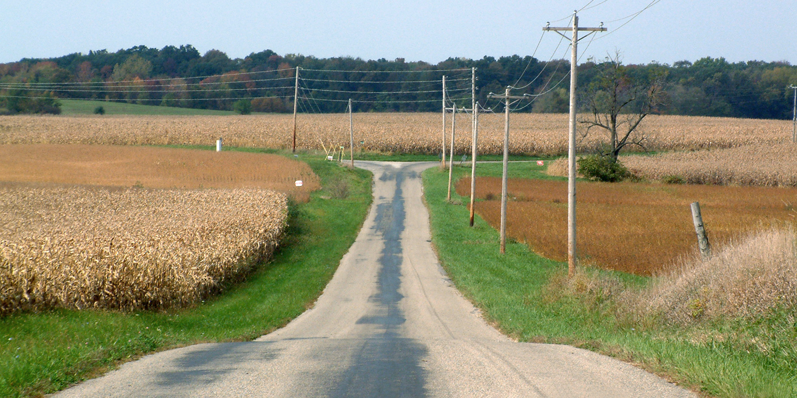 An autumn afternoon near the present-day site of the extinct town of Chatterton, Indiana. The view is to the northwest, looking toward the intersection of Independence Road and County Road 600 North in Warren County. (The intersection is near the east side of the Chatterton site.)